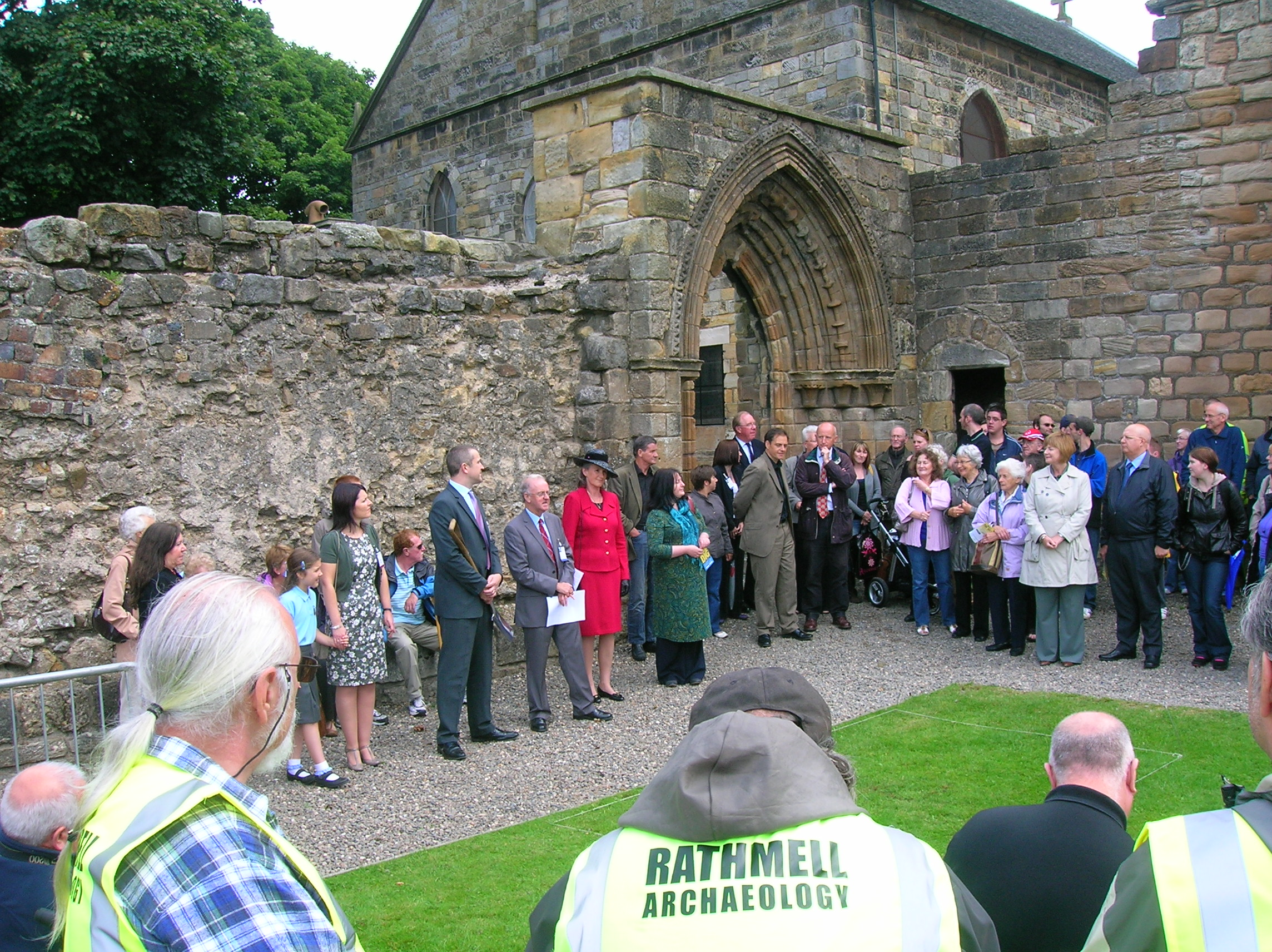 Kilwinning Abbey - launch of archaeological dig. North Ayrshire, Scotland.